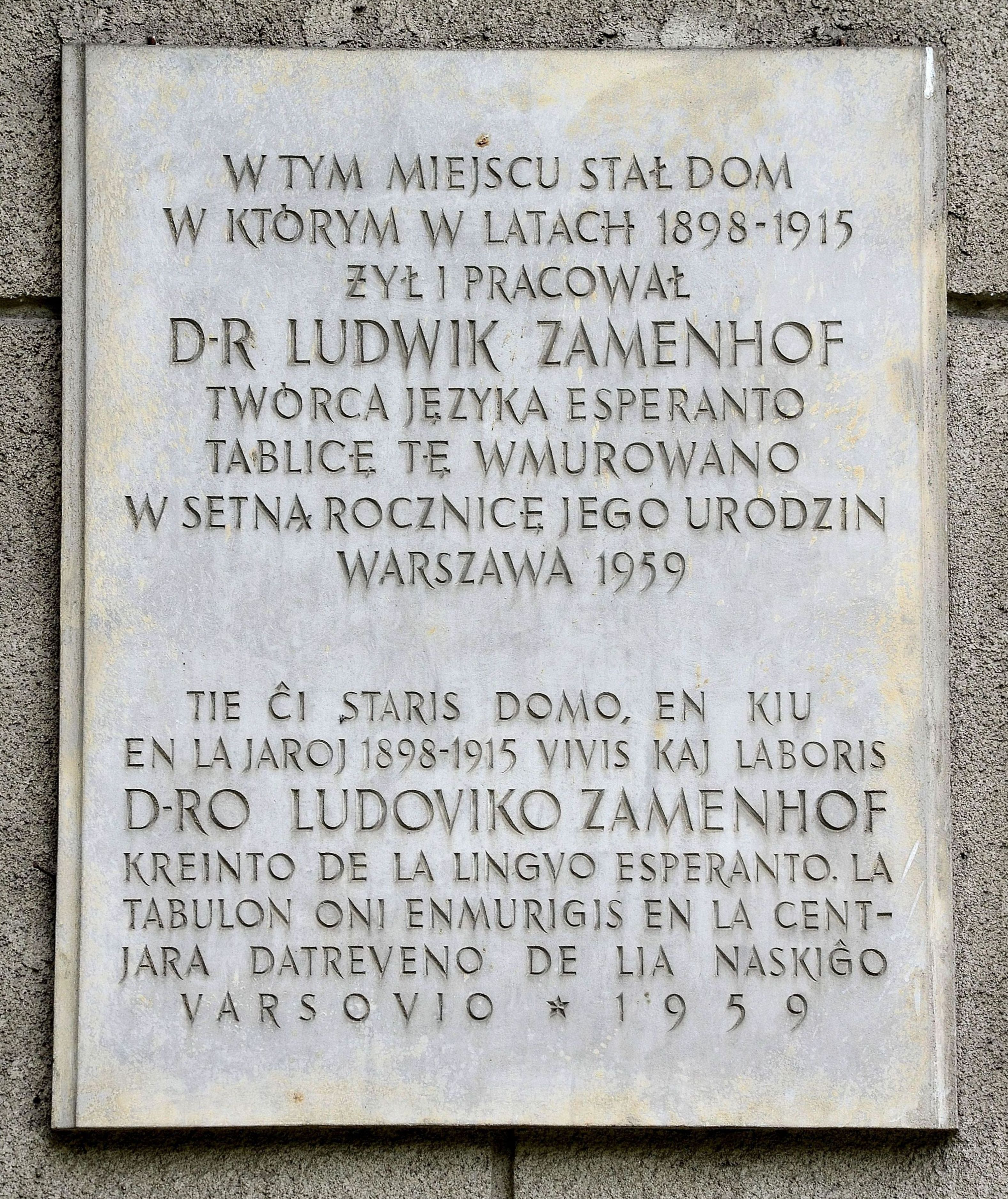 Commemorative plaque at 5 Zamehofa Street in Warsaw where the house in which Ludwik Zamenhof lived and worked in 1898-1915 stood.